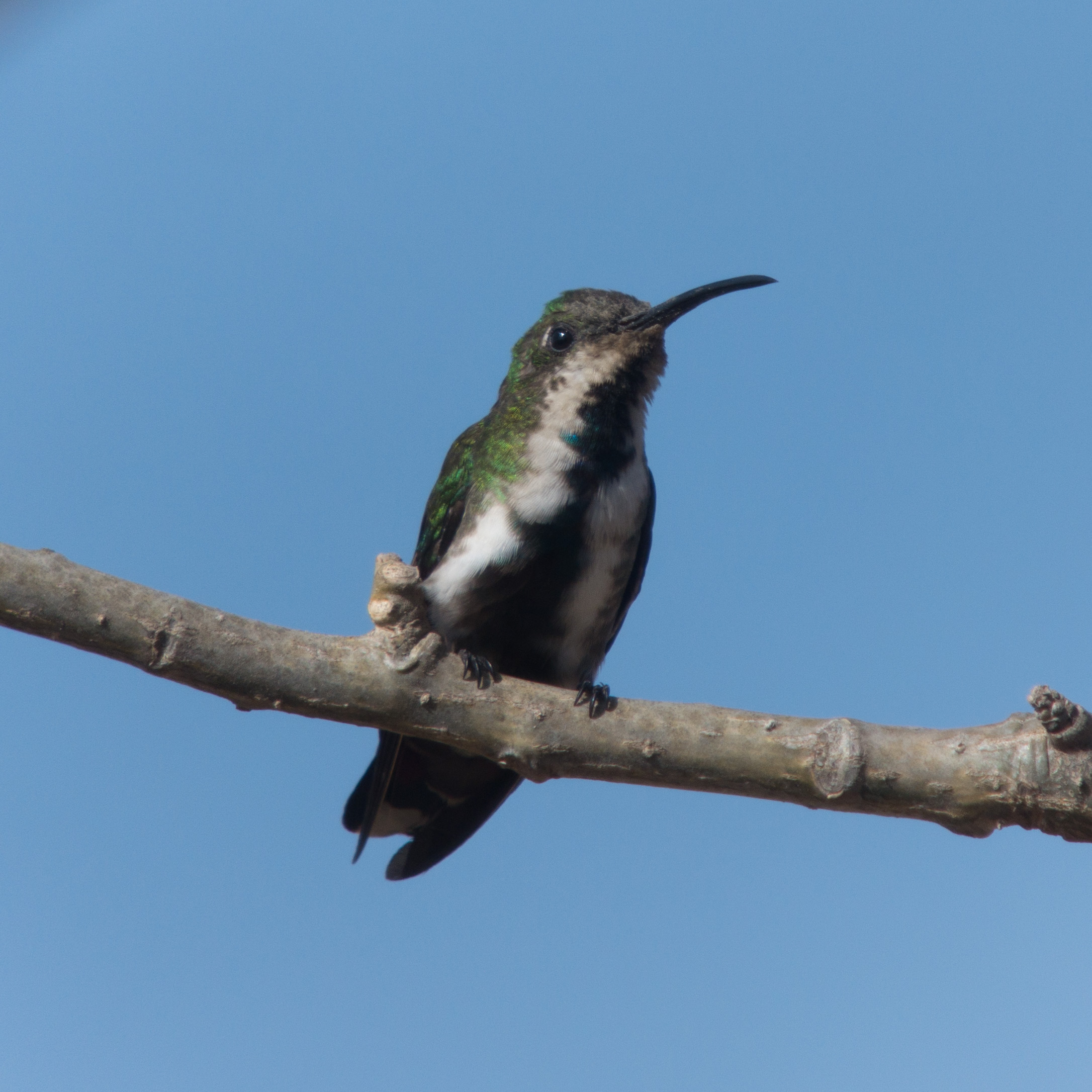 Veraguan Mango (Anthracothorax veraguensis), female, Los Pantanos, Cocle, Panama